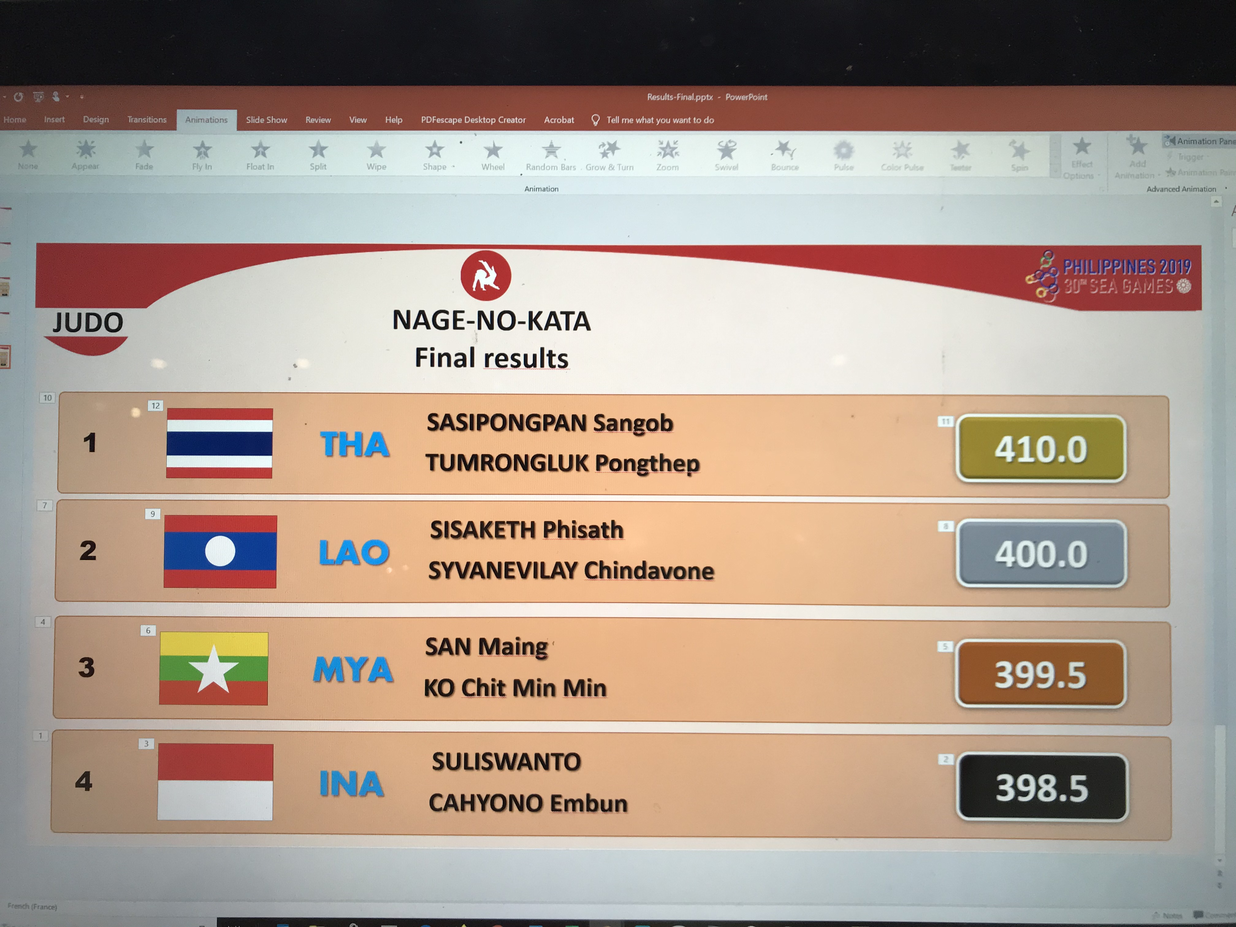 Final result of competition